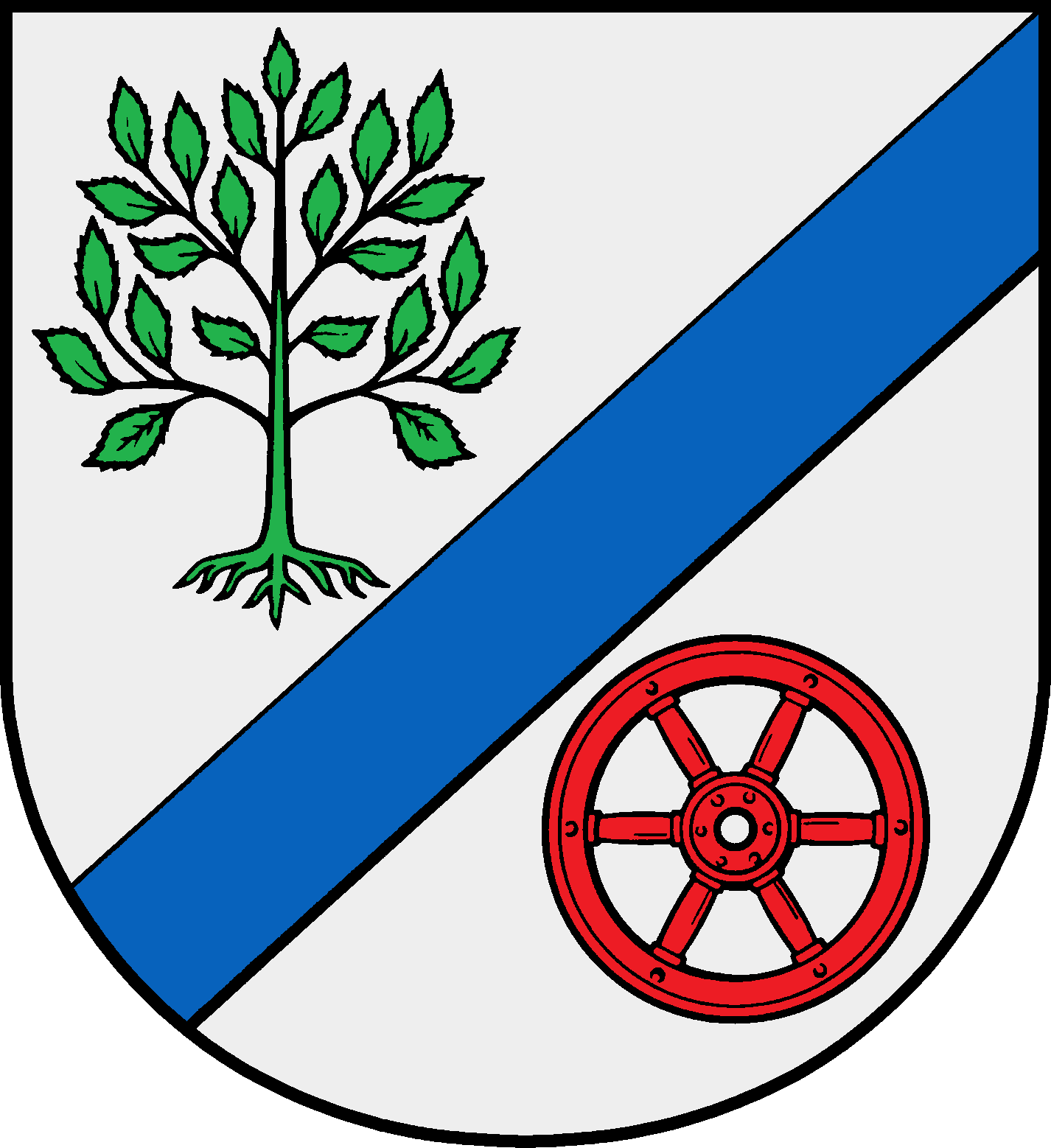 Coat of arms of the municipality Oersdorf in Schleswig-Holstein, Germany.